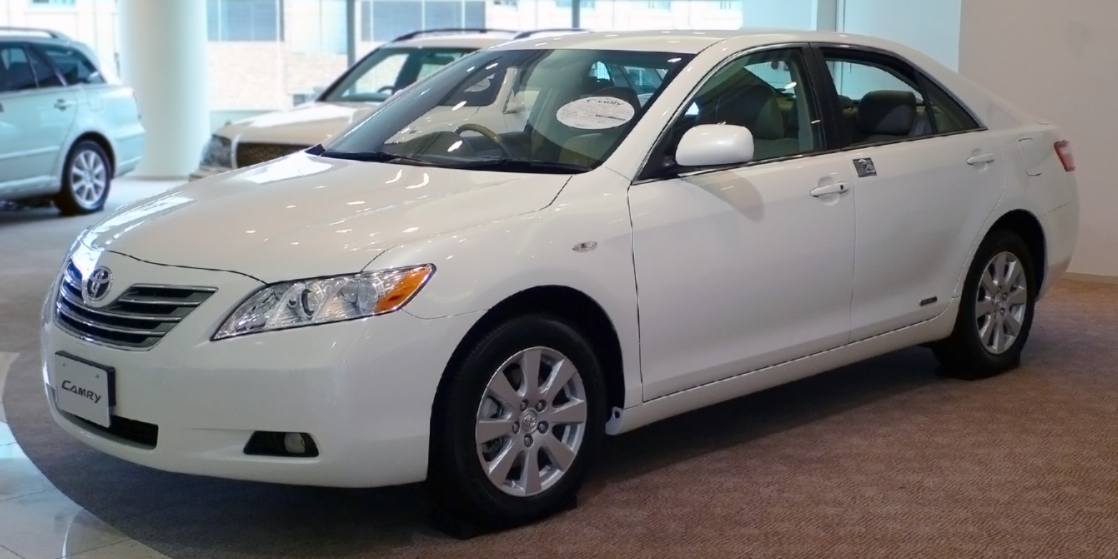 8th Toyota Camry photographed in the Showroom of Toyota (Amlux)